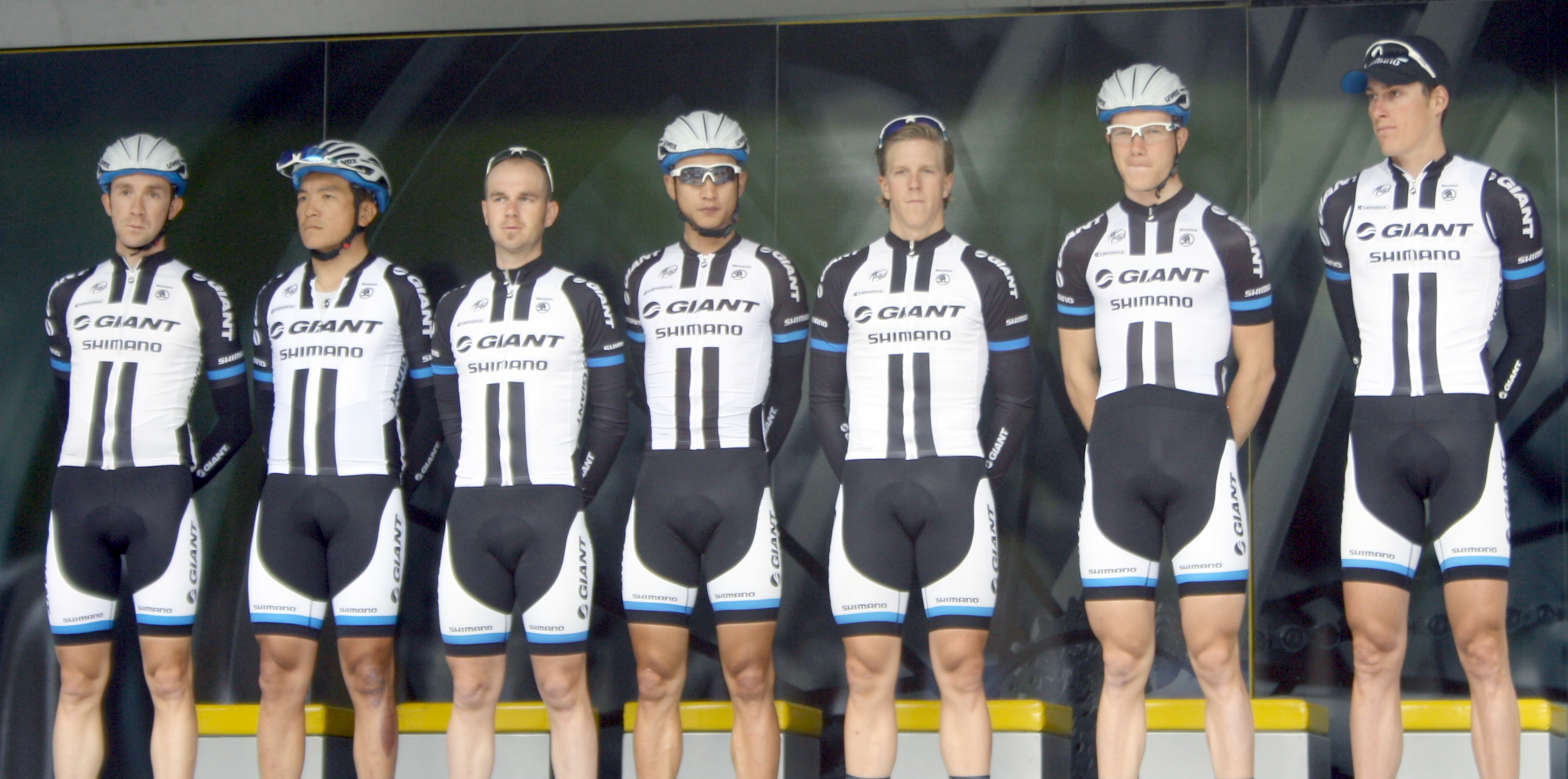 Giant Shimano at the start of the World Ports Classic 2014 in Rotterdam